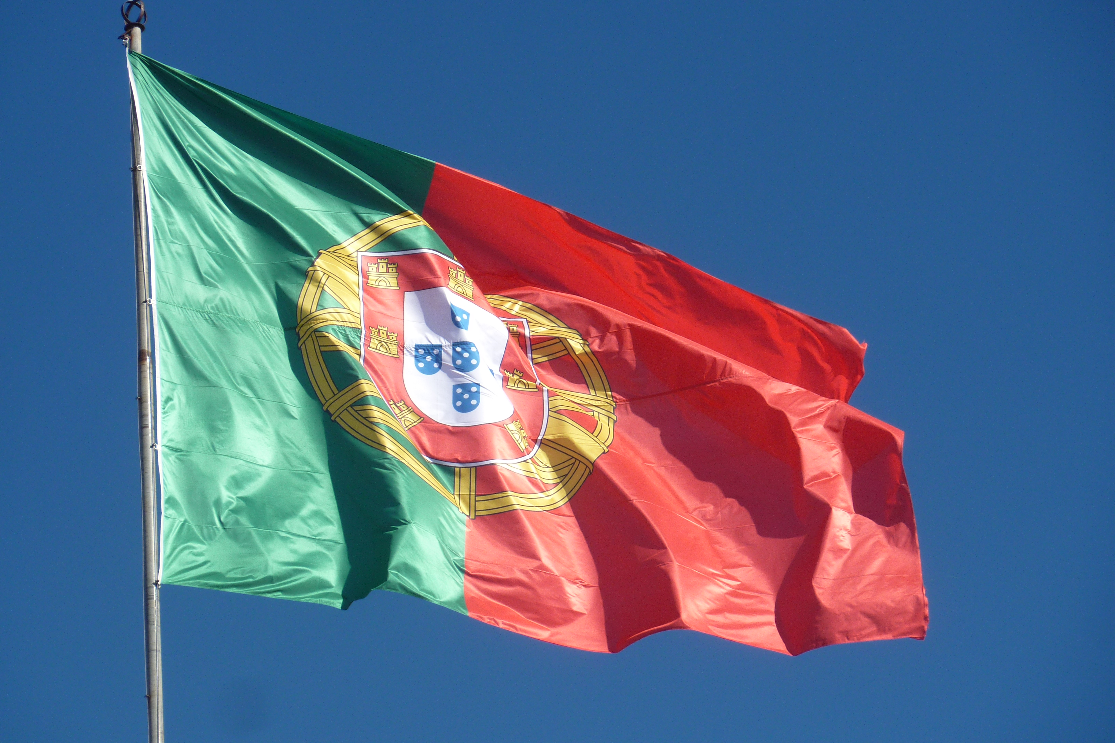 Algarve - Silves - Portuguese flag at the castle